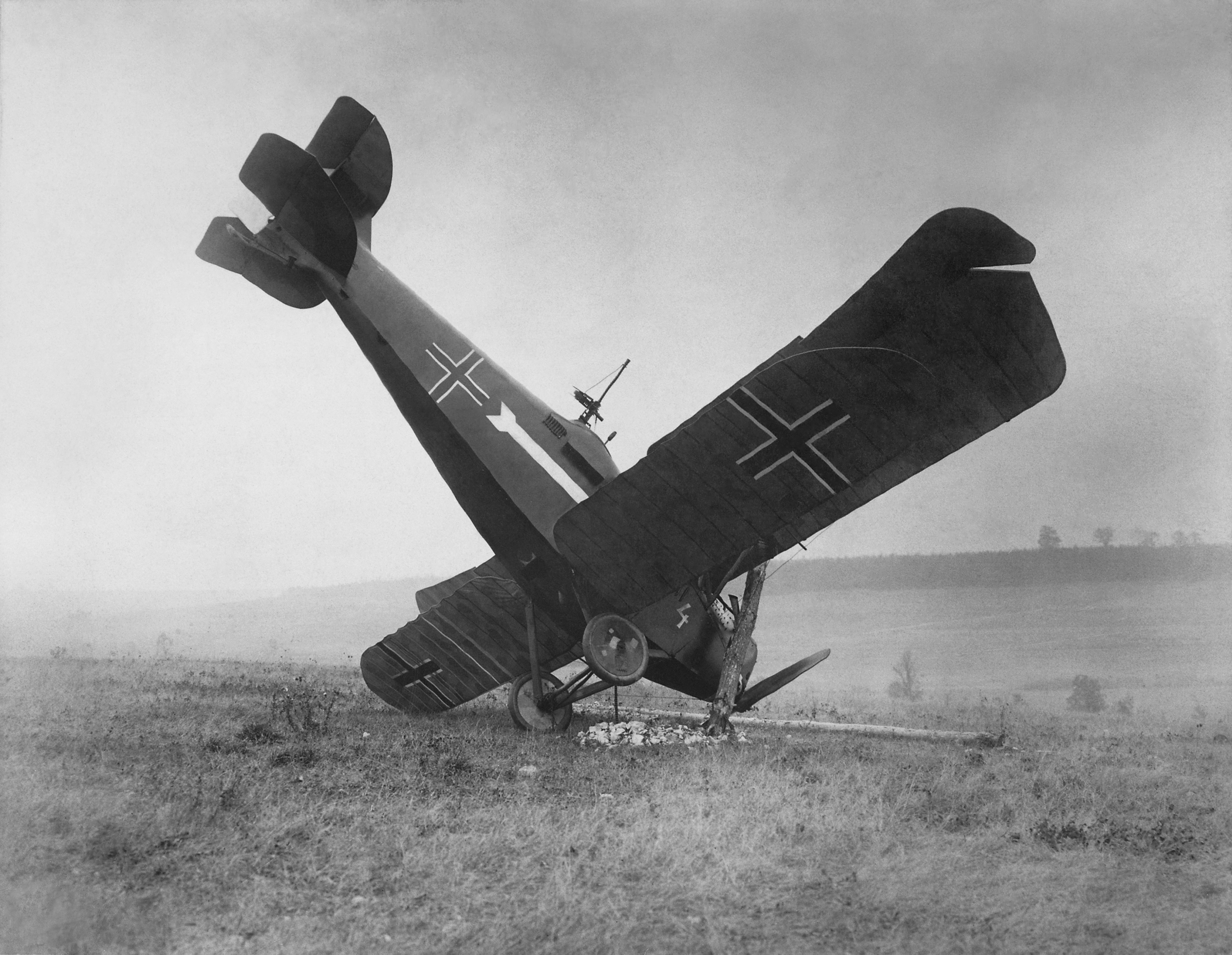 A German CL.IIIa (serial no. 3892/18) airplane brought down in the Forest of Argonne by American machine gunners between Montfaucon and Cierges, France, showing black crosses with white fimbriation, 4 October 1918.